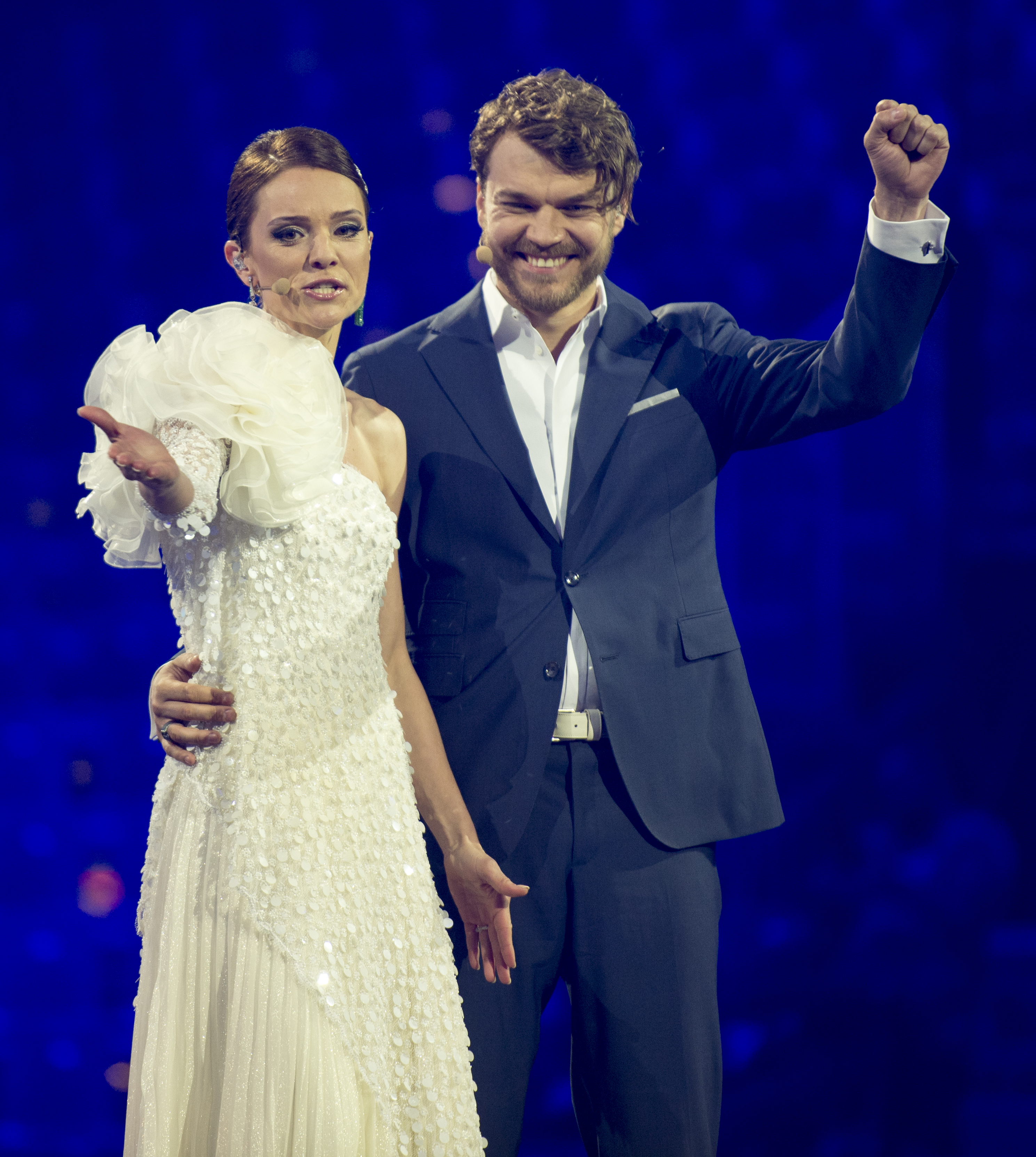 Lise Rønne and Pilou Asbæk during the first dress rehearsal of the first semifinal of the Eurovision Song Contest 2014.